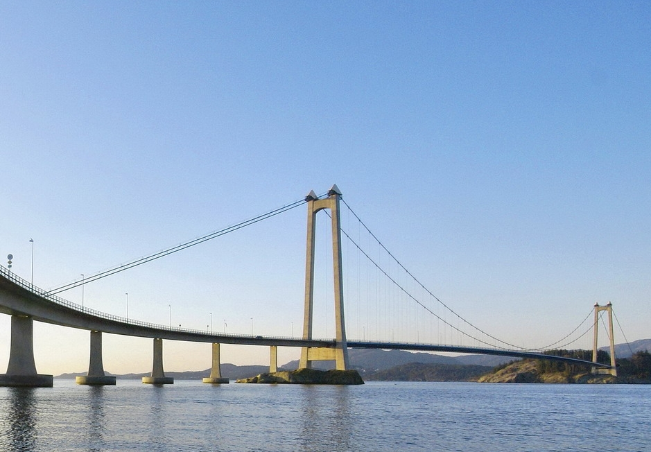 Stord Bridge is a road bridge on European route E39 in Hordaland county (fylke), Norway.